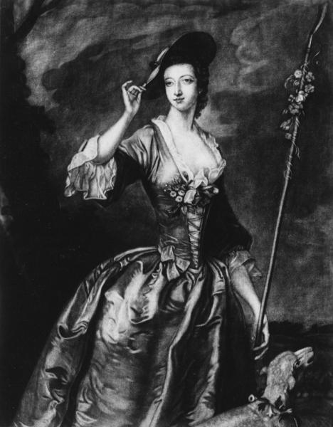 Portrait of Elizabeth Hamilton, 1st Baroness Hamilton of Hameldon as a shepherdess